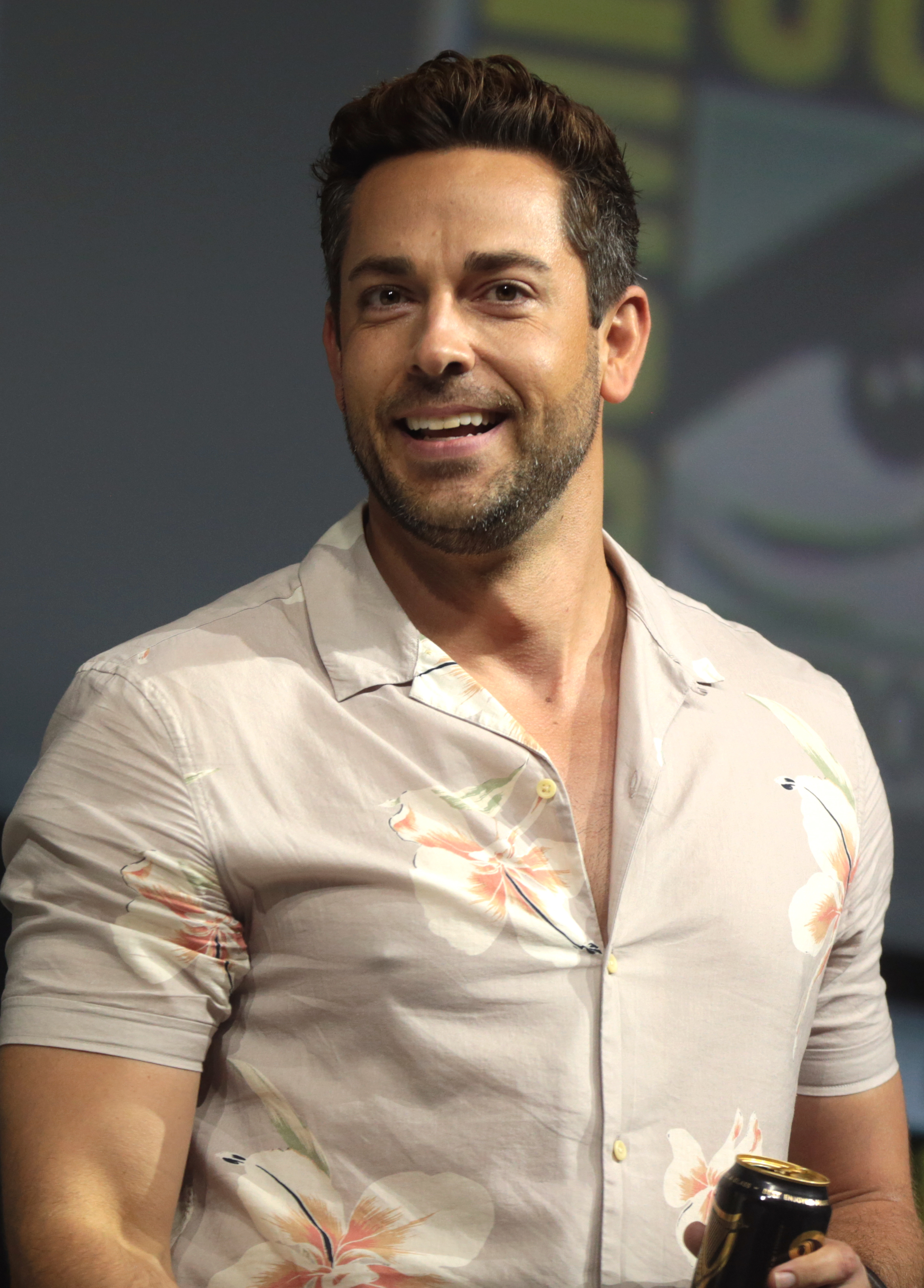 Aisha Tyler and Zachary Levi speaking at the 2018 San Diego Comic Con International, for "Shazam!", at the San Diego Convention Center in San Diego, California.